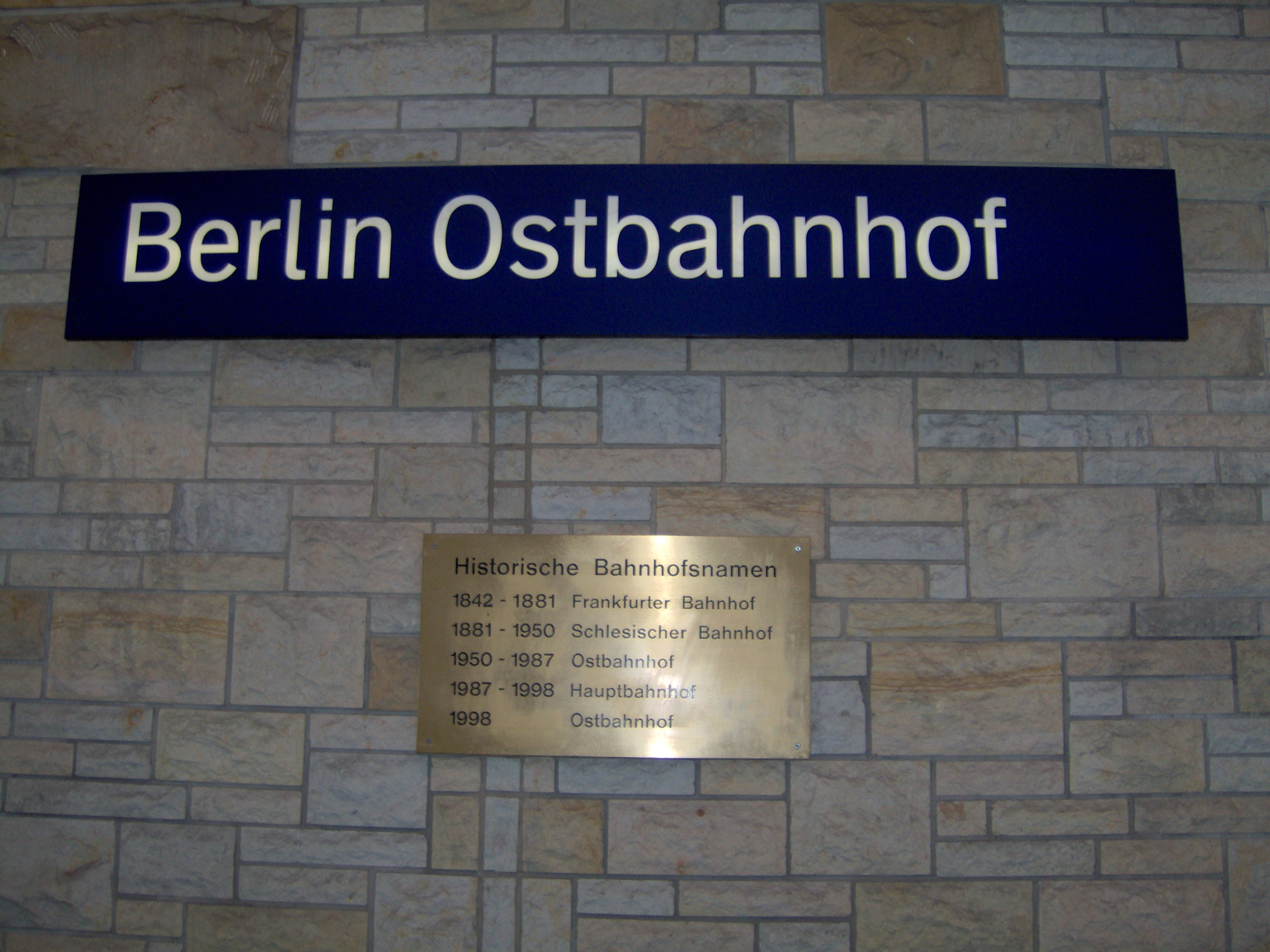 Plaque at Berlin Ostbahnhof showing the dates and names under which it has been known. Self-made, 2006